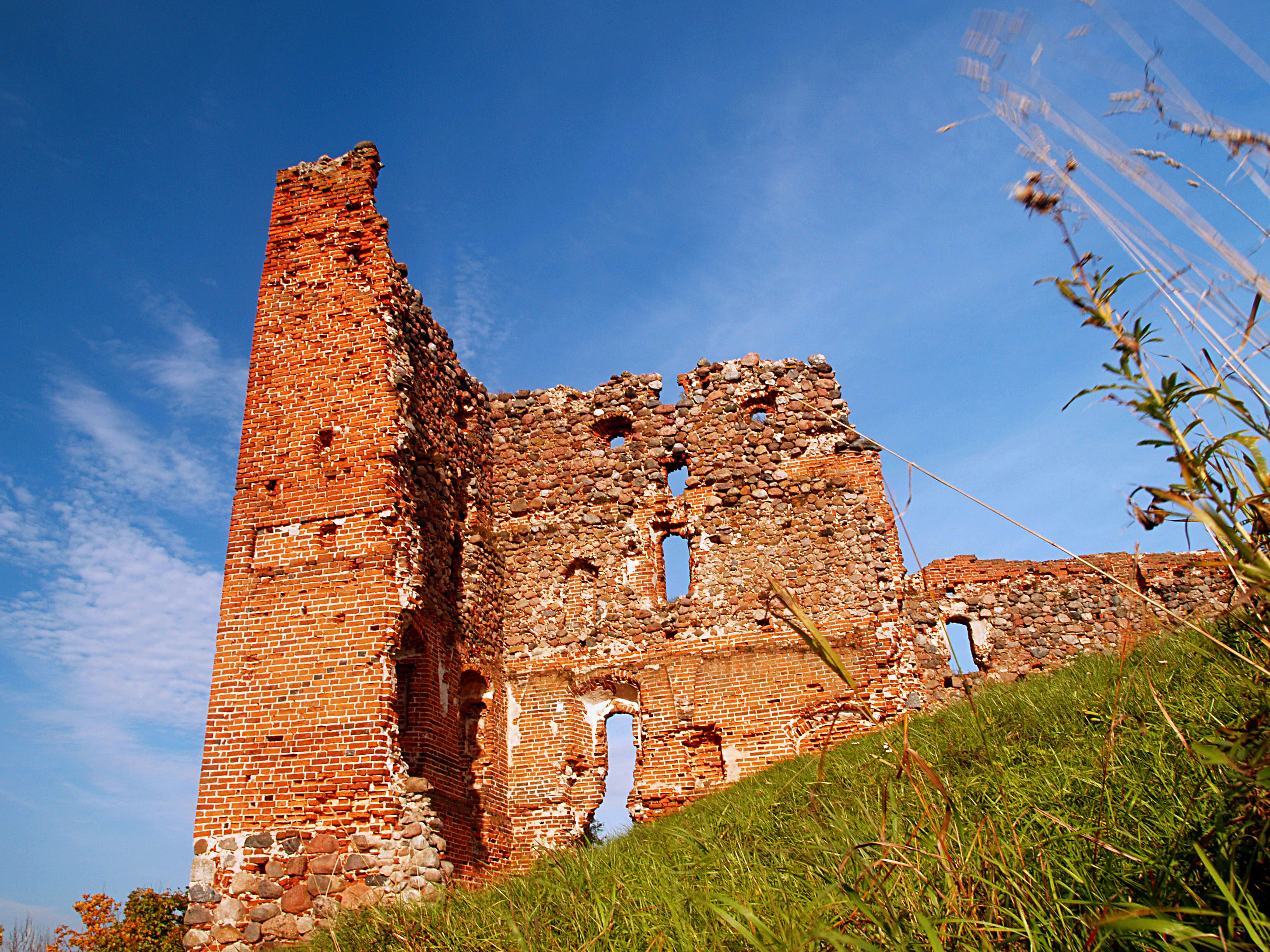 Ludza Castle ruins in the town of the same name, Latvia.